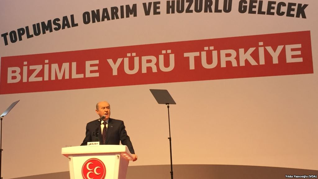 Nationalist Movement Party leader Devlet Bahçeli delivering his party's 2015 general election manifesto, 3 May 2015